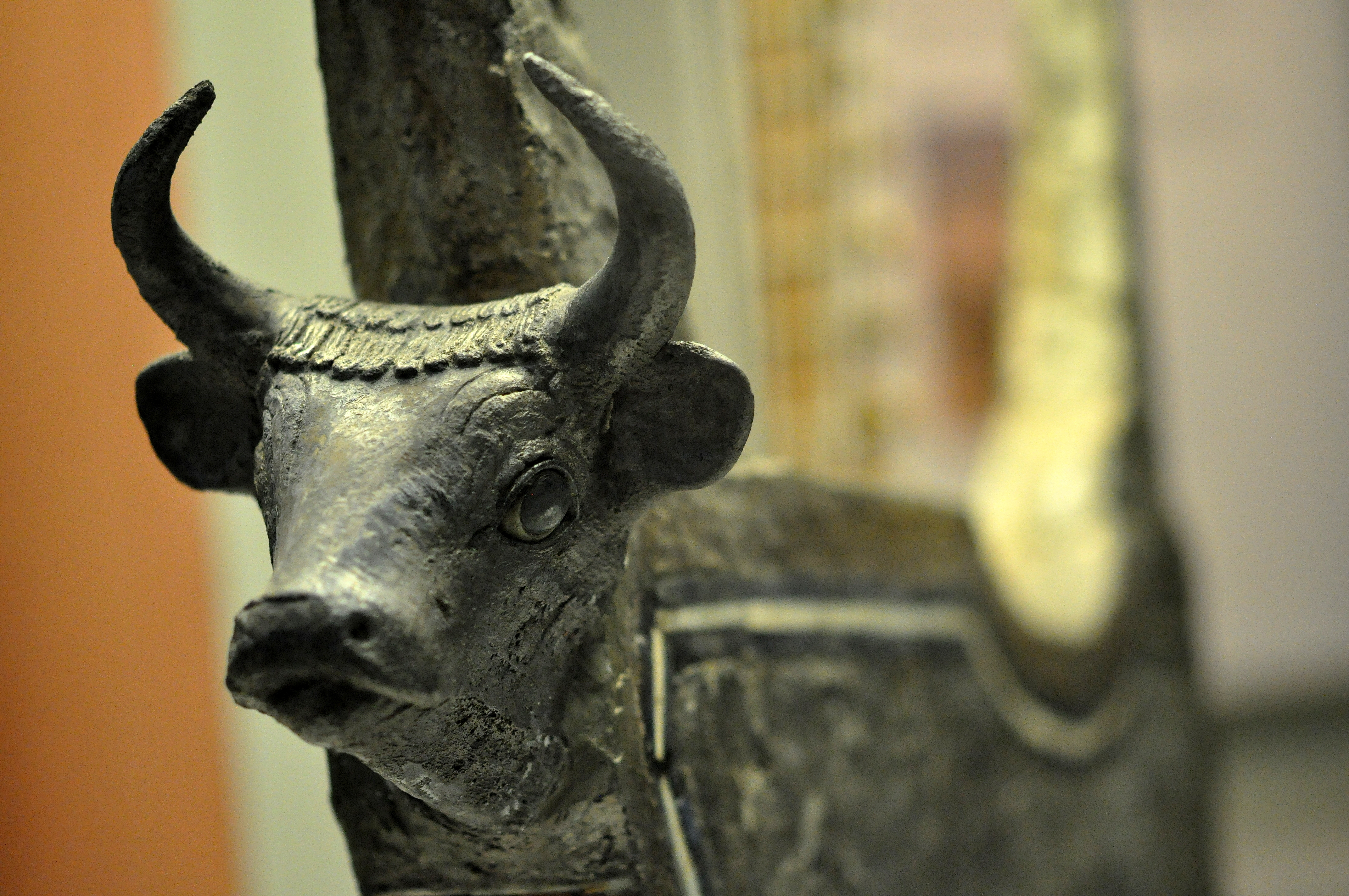 This lyre was found at the Great Death Pit at the Royal Cemetery, Ur. The silver cow's head decorating the front has inlaid eyes of shell and lapis lazuli. The edges of the sound box have a narrow border of shell and lapis lazuli inlay. From Ur, southern Mesopotamia, Iraq. Early dynastic period, circa 2500 BCE. The British Museum, London.